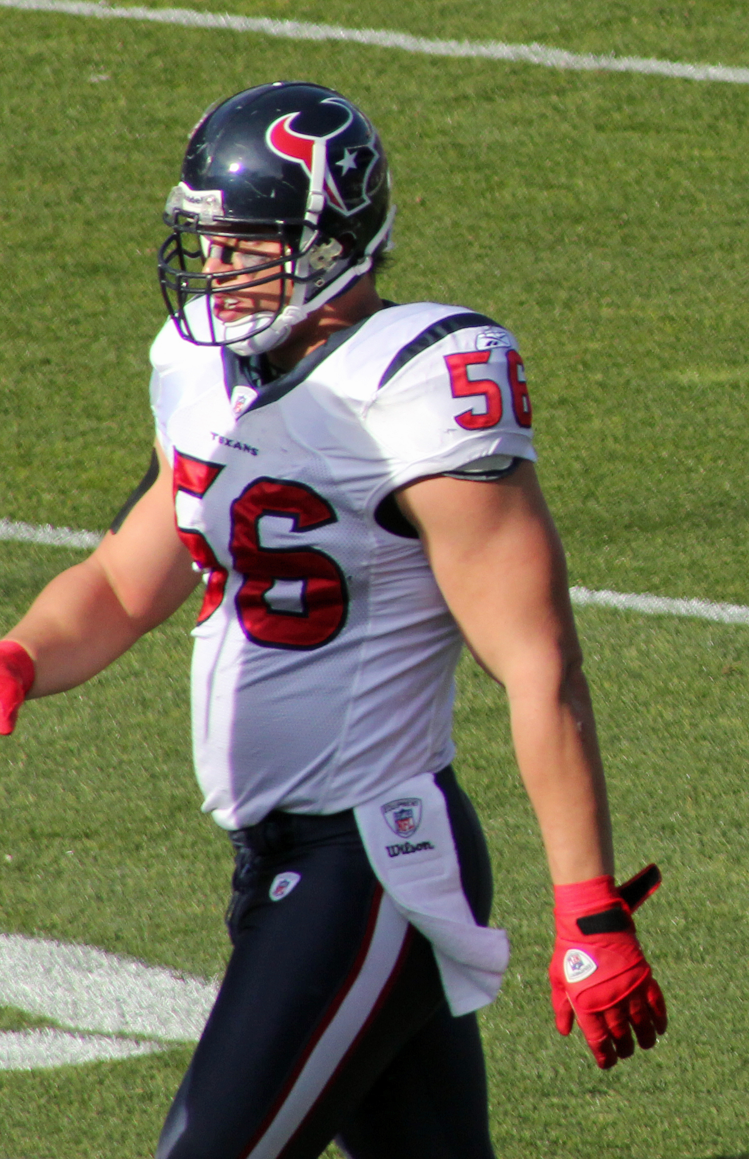 Brian Cushing, a player on the Houston Texans American football team.